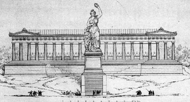 Scetch for Bavaria statue and Ruhmeshalle München